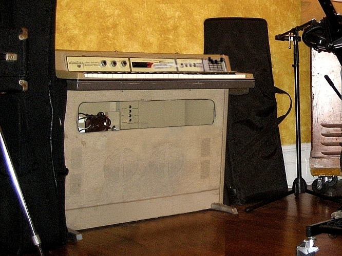 Wurlitzer 207 (teacher's console in the classroom) at Vibe 56 Studio (chair erased) see also Vibe 56 Studio Virtual Tours - Piano Room Opus 4 Studios equipment - Wurlitzer Electric Piano Wurlitzer 207 disassembles, flickr other shots from flickr [1], [2], [3] A Wurlitzer music laboratory in a classroom, Popular Mechanics (Sep. 1966), p.90